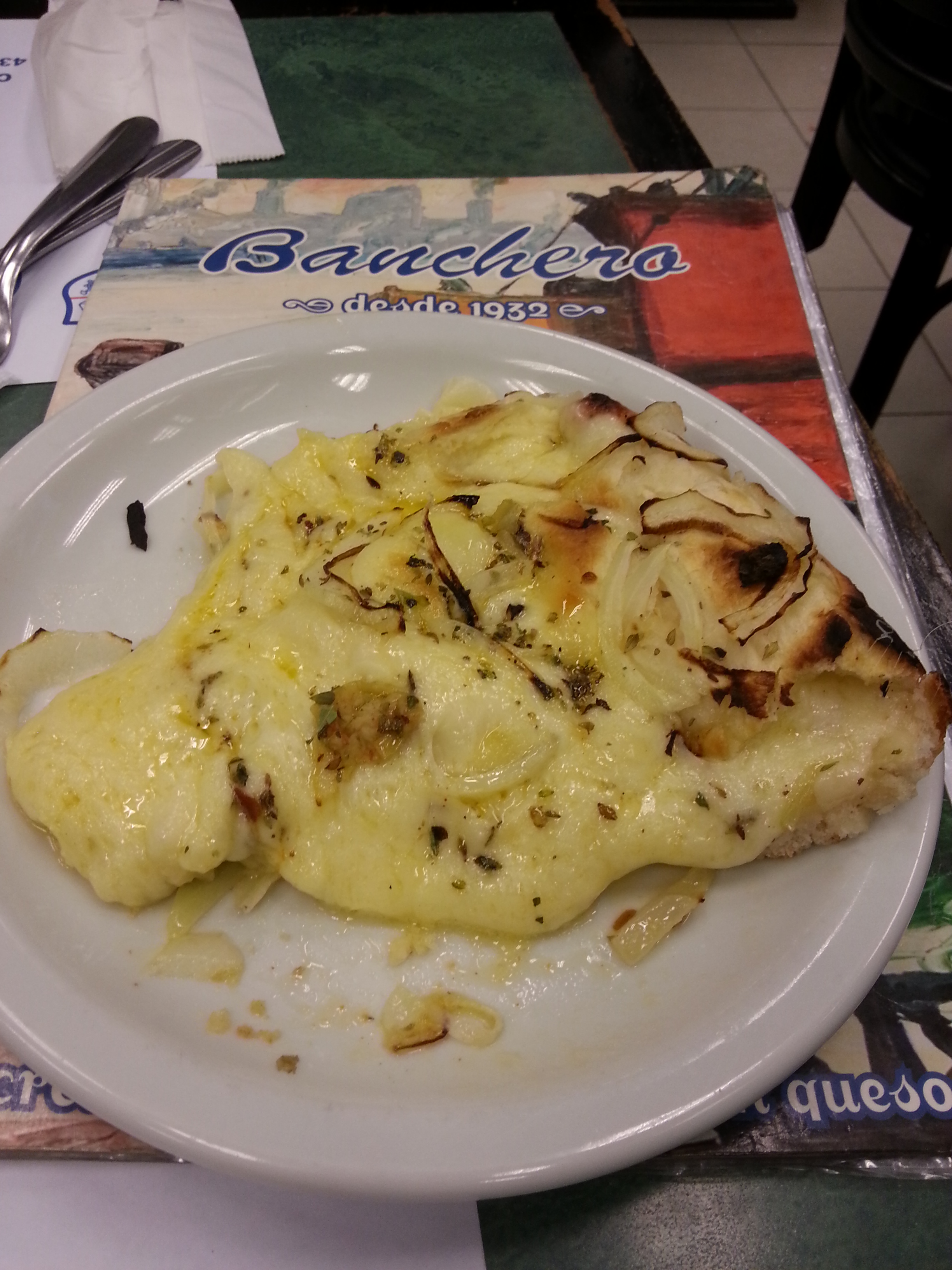 Pizza